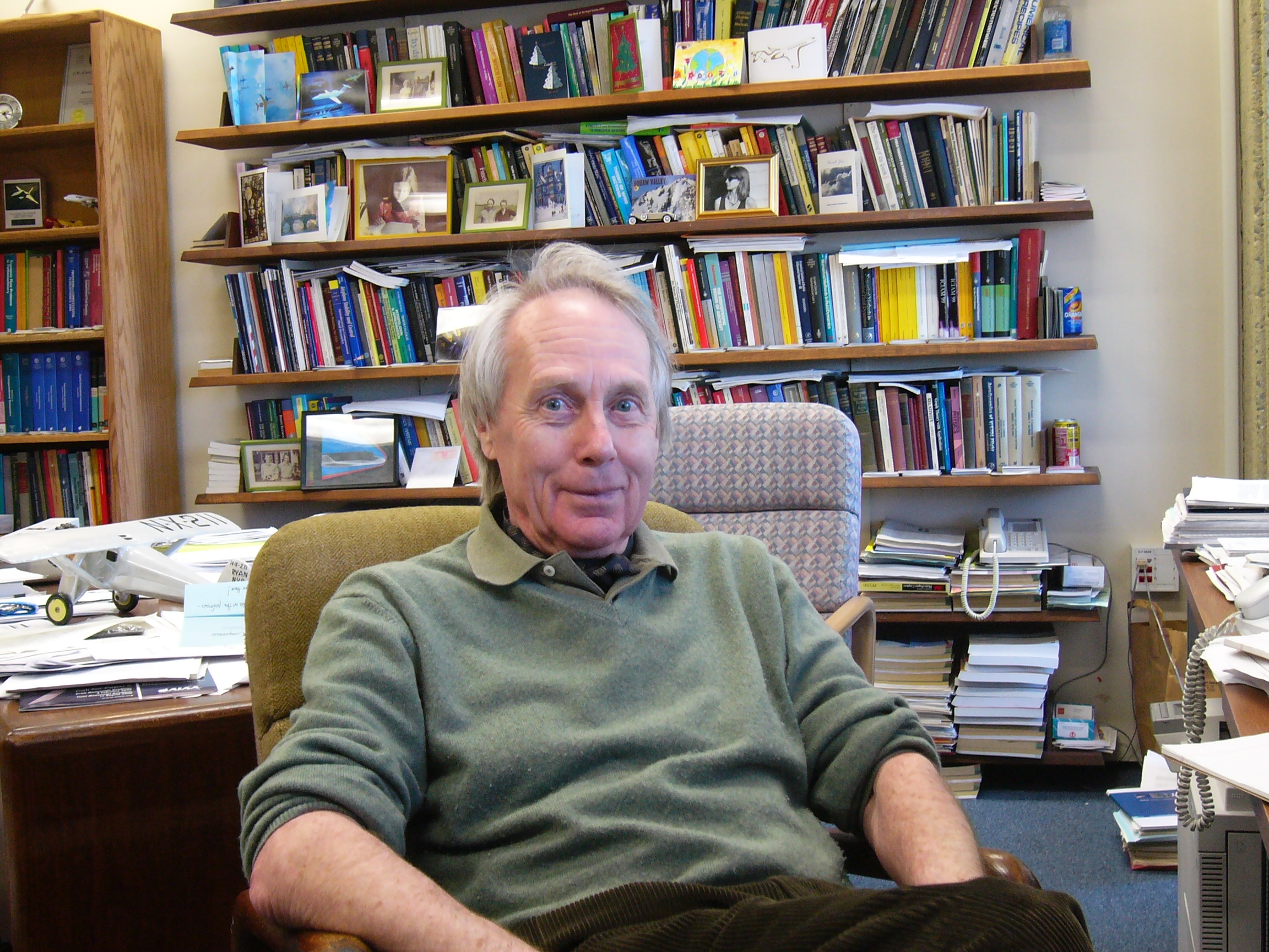 Antony Jameson in his office at Stanford University